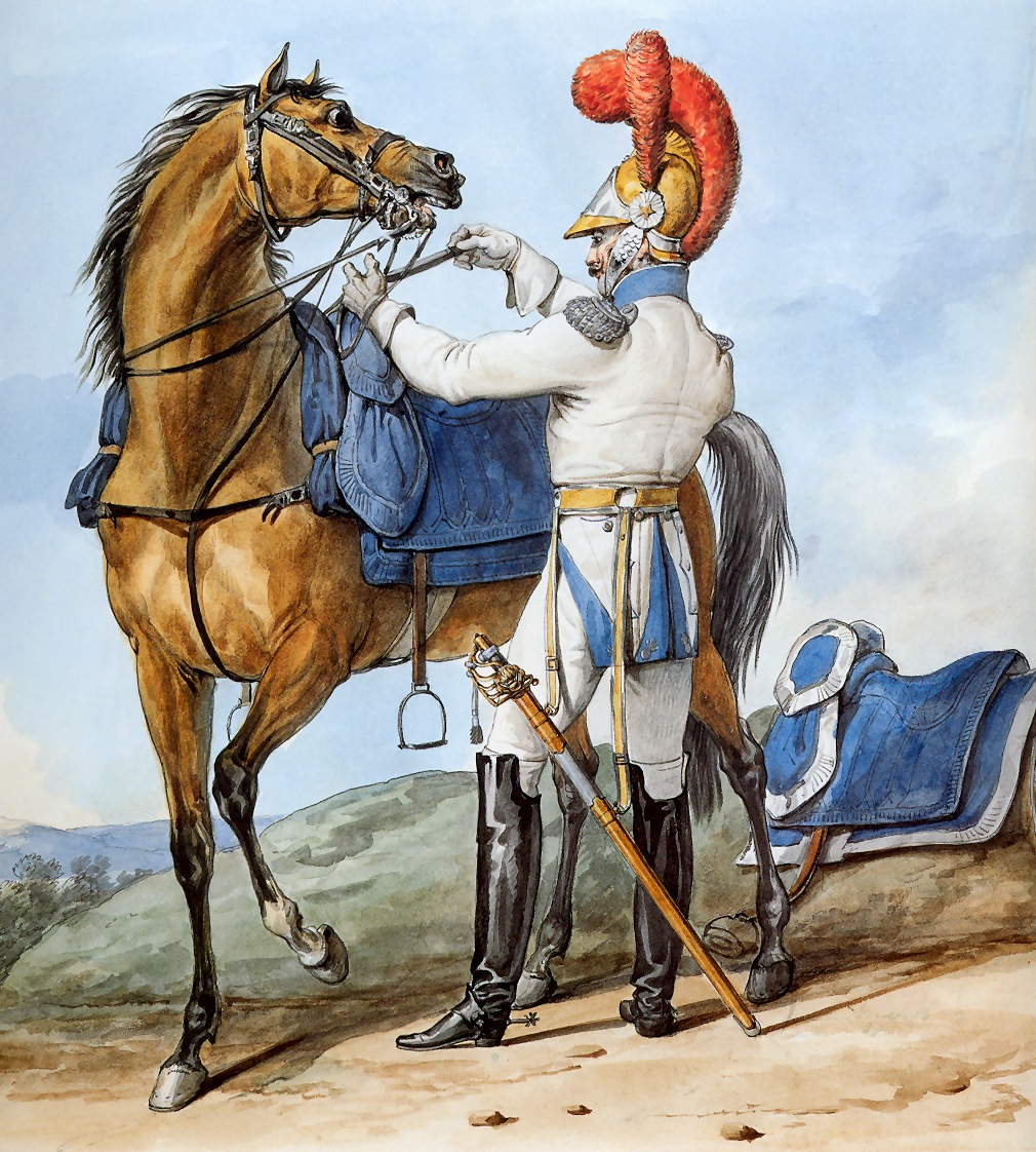 2nd Regiment of Carabiniers - Squadron Chief. Part of a series chronicling the uniforms of Napoleon's Grande Armée.